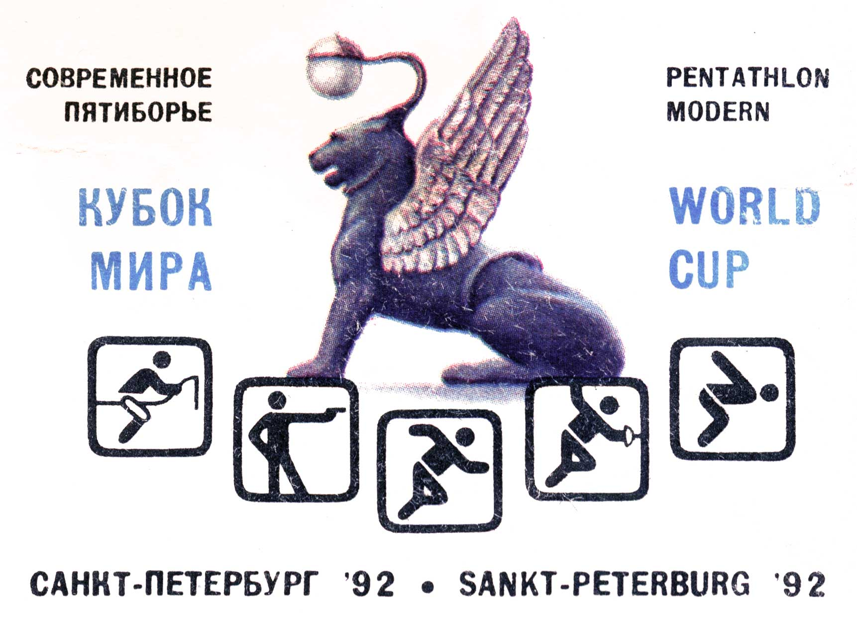 Modern pentathlon, World Cup, Saint-Petersburg, 1992.The fragment of Event cover envelope of Russia, 1992.